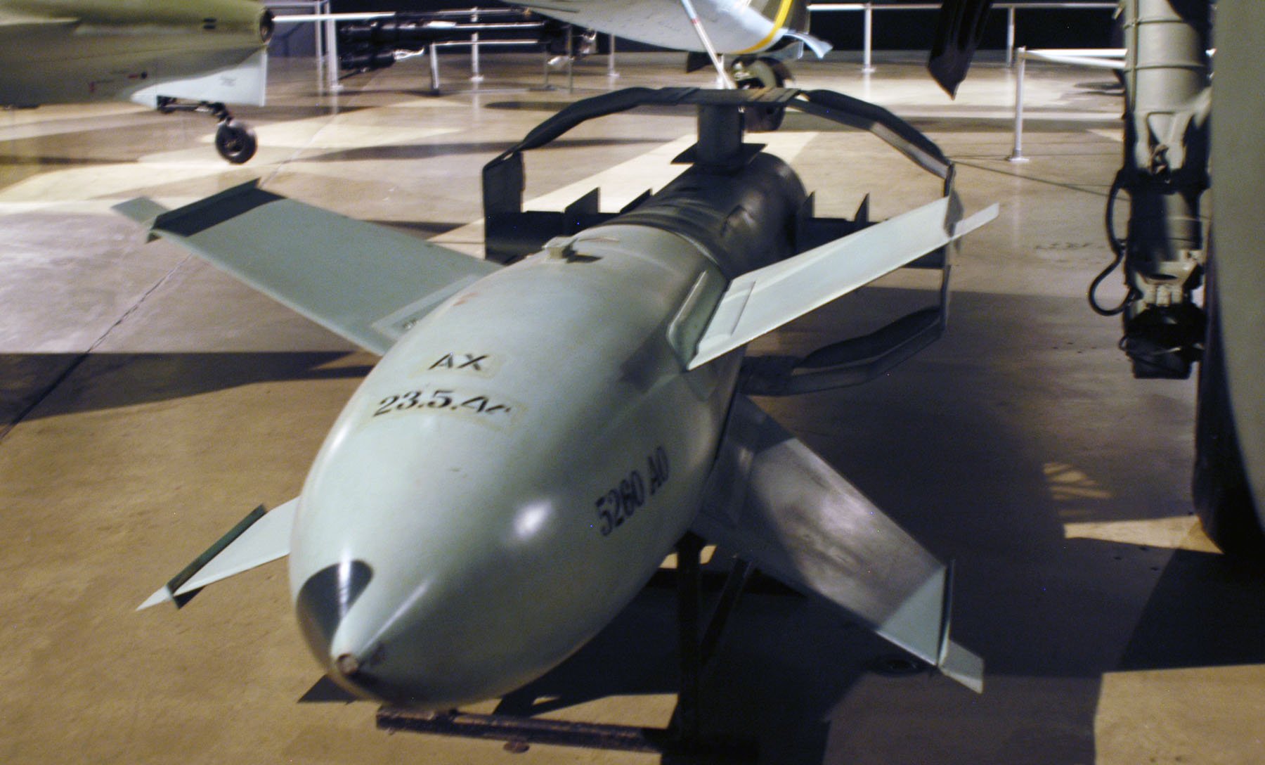 German "Fritz-X" Guided Bomb in the Air Power Gallery at the National Museum of the U.S. Air Force. (U.S. Air Force photo)